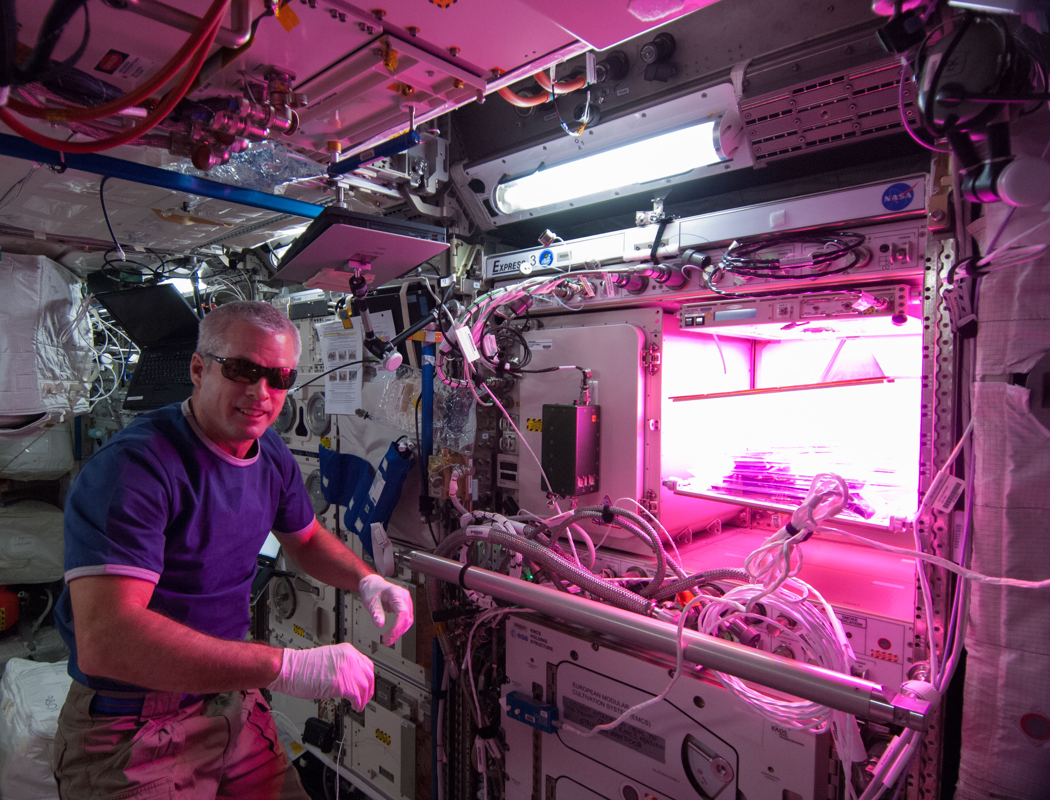 Expedition 39 flight engineer and NASA astronaut Steve Swanson installed Veggie in the Columbus module May 7 in an Expedite the Processing of Experiments to the Space Station (EXPRESS) rack. Wearing sunglasses, Swanson activated the red, blue and green LED lights inside Veggie on May 8. A root mat and six plant "pillows," each containing 'Outredgeous' red romaine lettuce seeds, were inserted into the chamber. The pillows received about 100 milliliters of water each to initiate plant growth. The clear, pleated bellows surrounding Veggie were expanded and attached to the top of the unit.